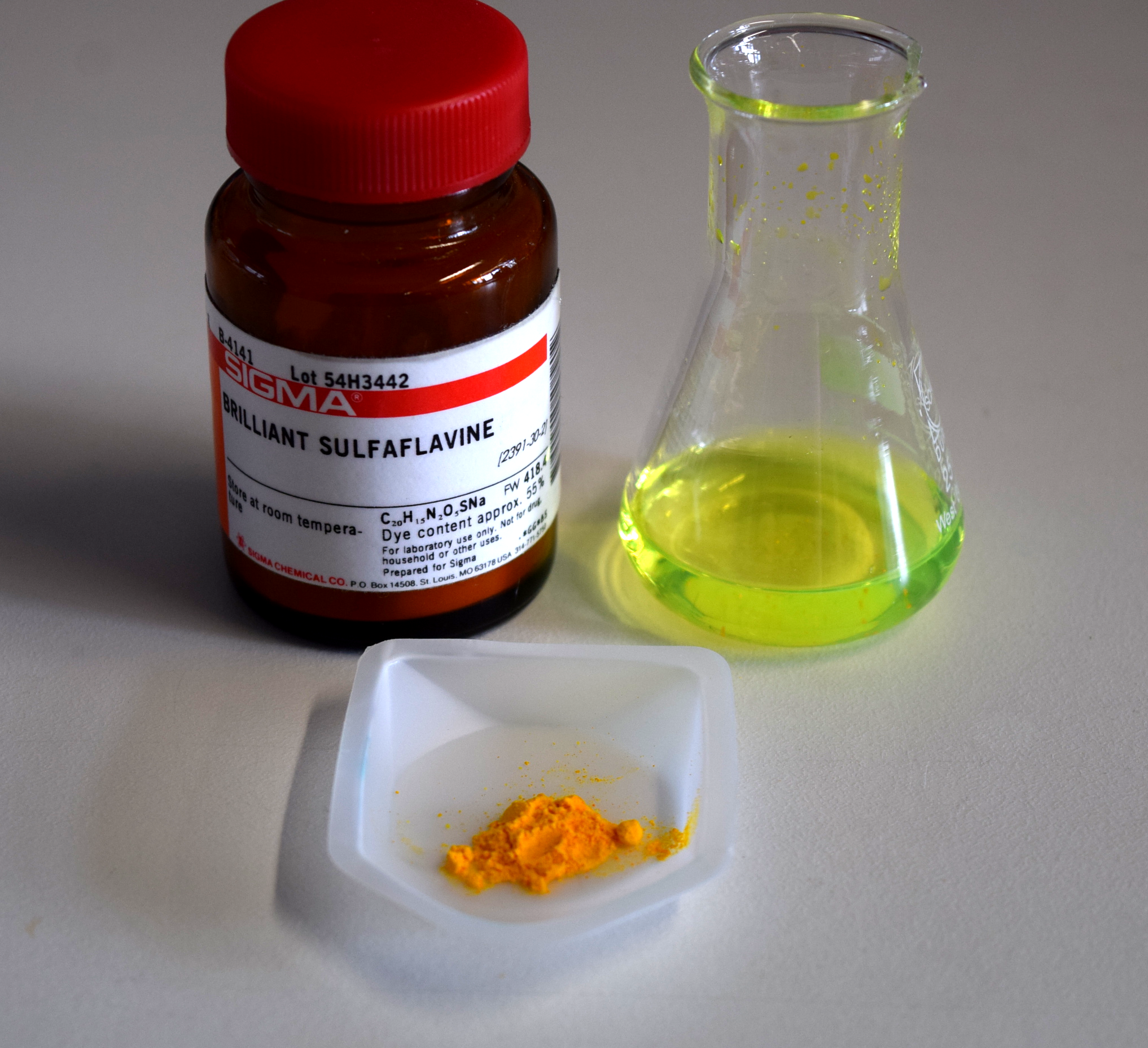 A sample of the fluorescent dye Brilliant Sulfaflavine and the same substance diluted in Ethanol.